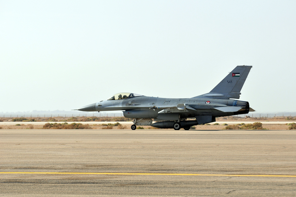 Falcon Air Meet. A Royal Jordanian Air Force F-16 Flying Falcon lands Oct. 28, 2009, during the Falcon Air Meet at Mwaffaq Salti Air Base, Azraq, Jordan. The Falcon Air Meet is an annual exercise between the U.S. Air Force, the Royal Jordanian Air Force and other regional countries whose air forces fly the F-16 Fighting Falcon. The Colorado and South Carolina Air National Guards are among this year's participants.